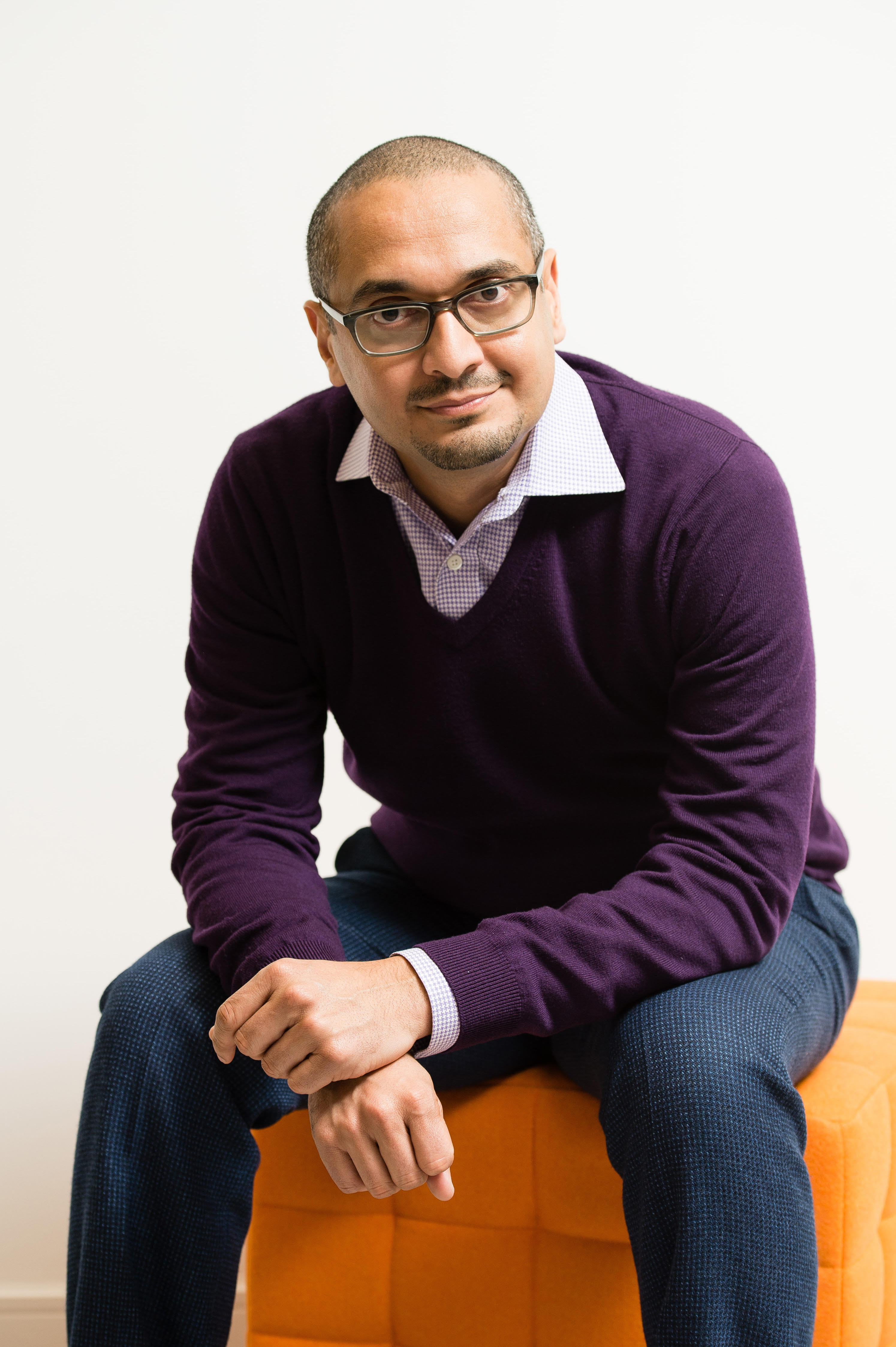 Francis deSouza poses as CEO of Illumina Inc.